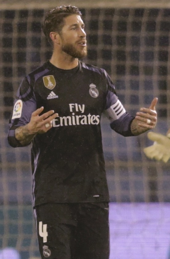 COPA DEL REY 16/17